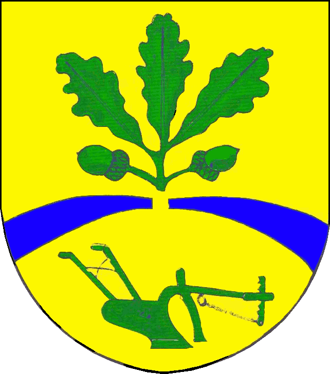 Coat of arms of the municipality Stolk in Schleswig-Holstein, Germany.